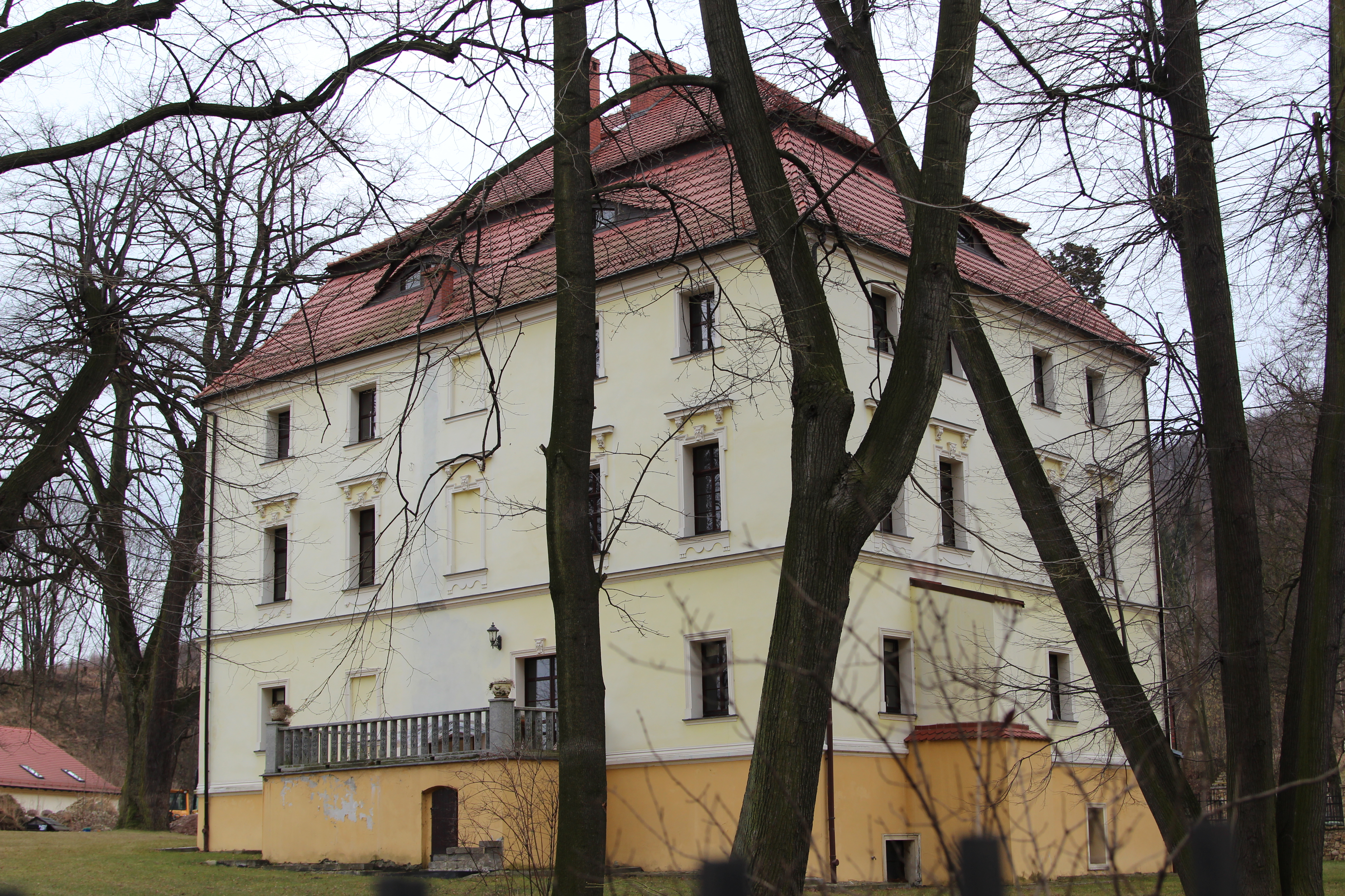 Manor in Witoszów Górny